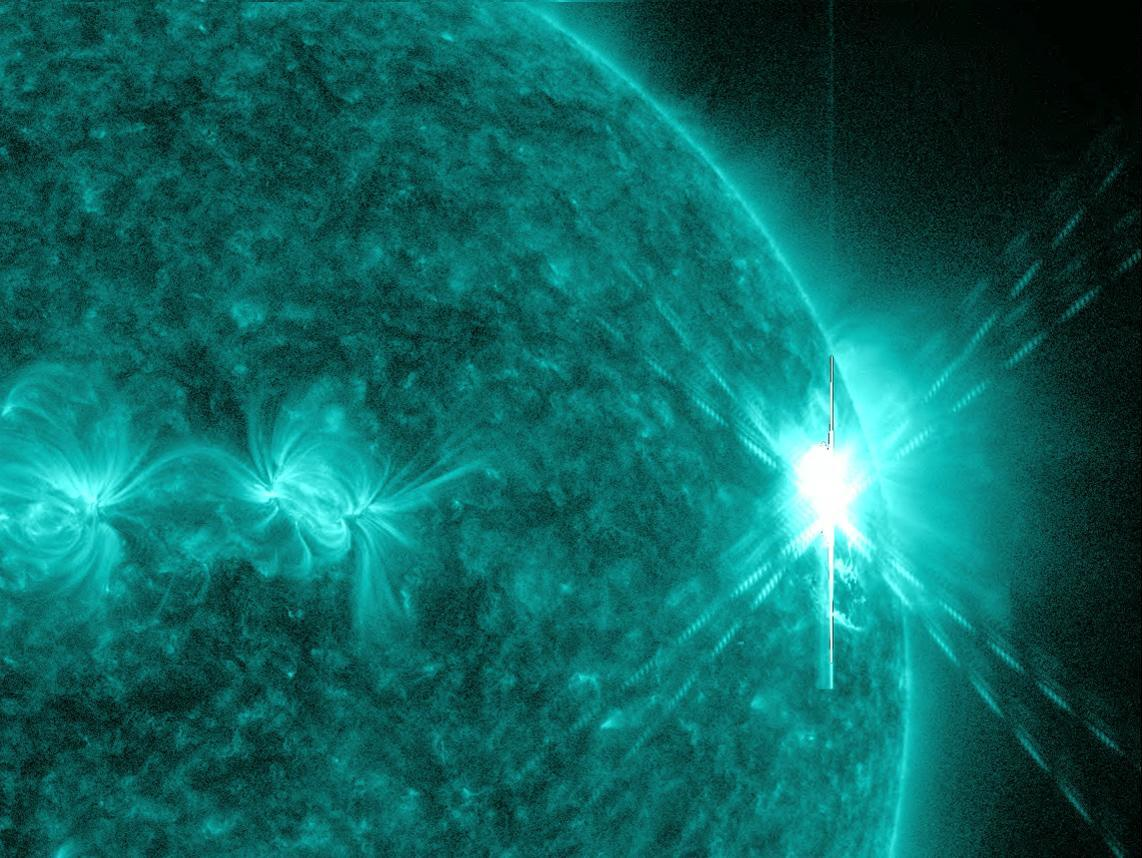 NASA image captured 9 Aug 2011. On August 9, 2011 at 3:48 a.m. EDT, the sun emitted an Earth-directed X6.9 flare, as measured by the NOAA GOES satellite. These gigantic bursts of radiation cannot pass through Earth's atmosphere to harm humans on the ground, however they can disrupt the atmosphere and disrupt GPS and communications signals. In this case, it appears the flare is strong enough to potentially cause some radio communication blackouts. It also produced increased solar energetic proton radiation -- enough to affect humans in space if they do not protect themselves. There was also a coronal mass ejection (CME) associated with this flare. CMEs are another solar phenomenon that can send solar particles into space and affect electronic systems in satellites and on Earth. However, this CME is not traveling toward and Earth so no Earth-bound effects are expected. More information and videos available here. Credit: NASA/SDO/AIA NASA Goddard Space Flight Center enables NASA’s mission through four scientific endeavors: Earth Science, Heliophysics, Solar System Exploration, and Astrophysics. Goddard plays a leading role in NASA’s accomplishments by contributing compelling scientific knowledge to advance the Agency’s mission.